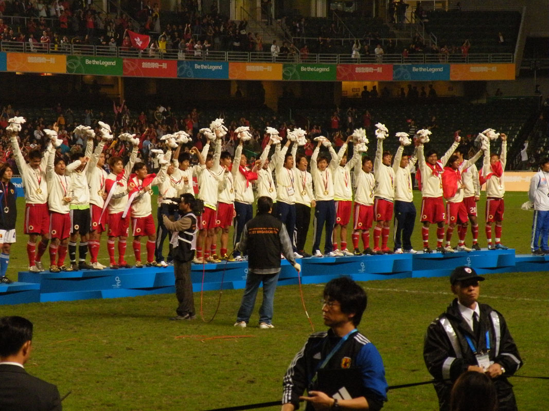 2009 East Asian Games Football Final Match - Hong Kong, China vs Japan at Hong Kong Stadium on 2009.12.12. Hong Kong, China Team recieved the Gold medal of East Asian Game.